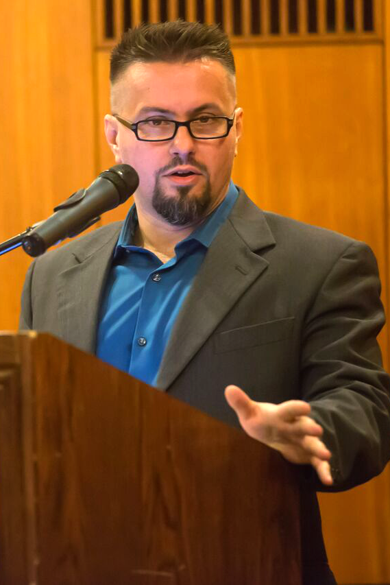 Pierrot (Tamas Z. Marosi) Hungarian game developer, producer, singer-songwriter